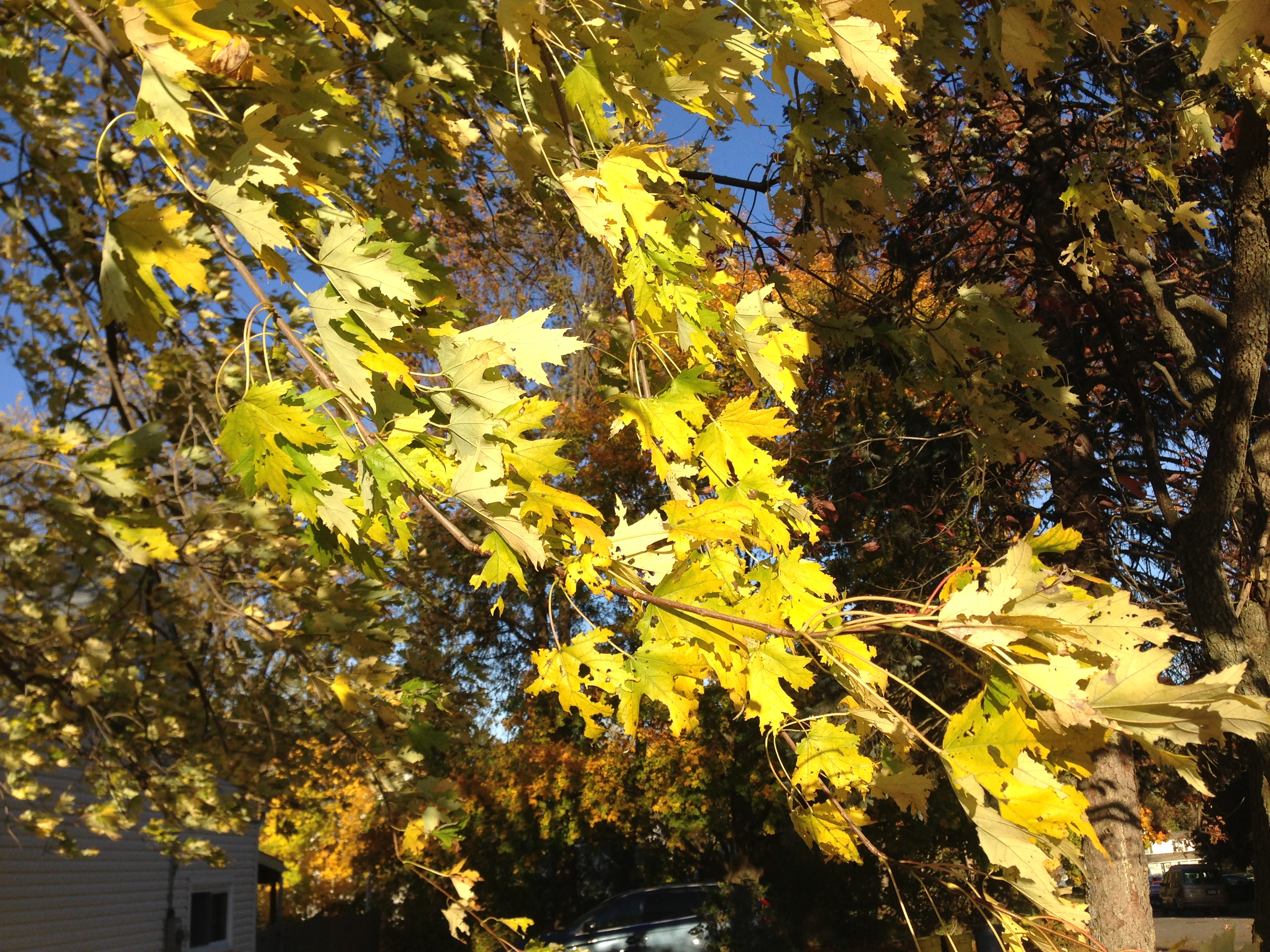 Silver Maple foliage during autumn along Glen Mawr Drive in Ewing, New Jersey